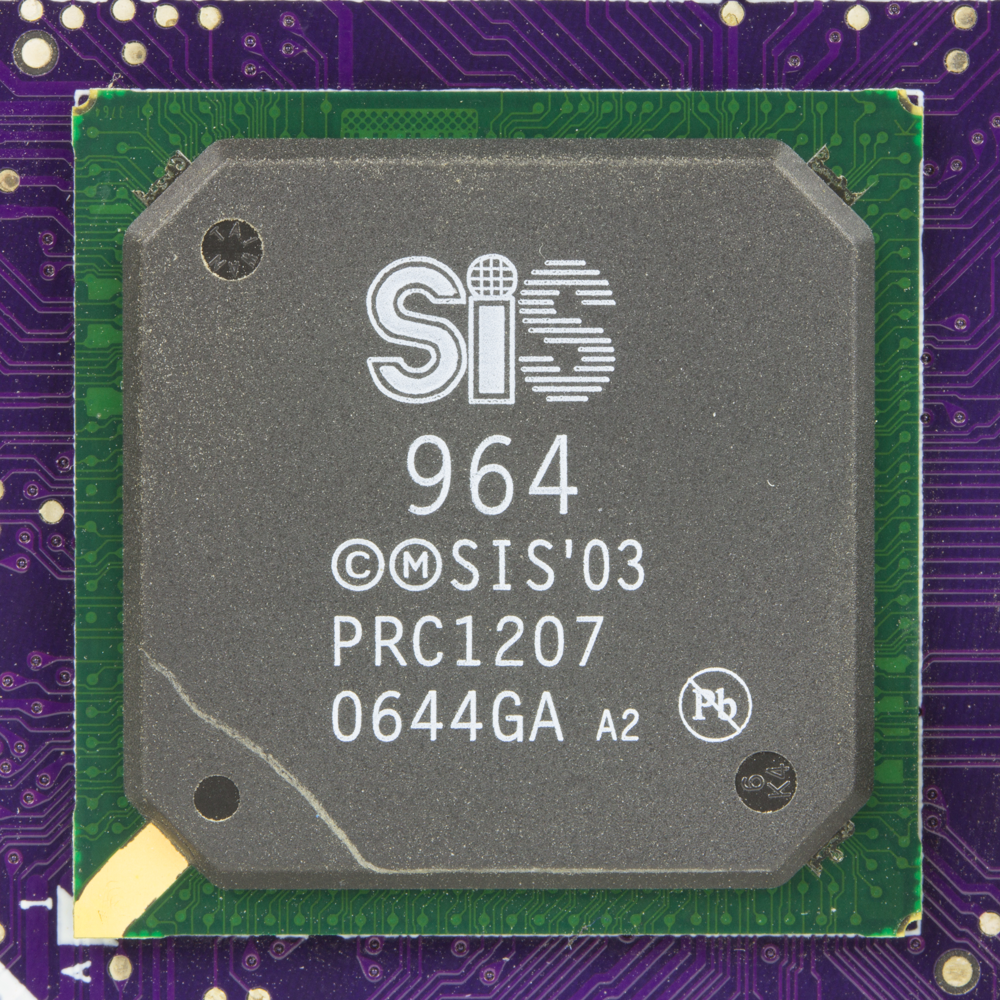 Elitegroup 761GX-M754 - SiS 964 - South bridge